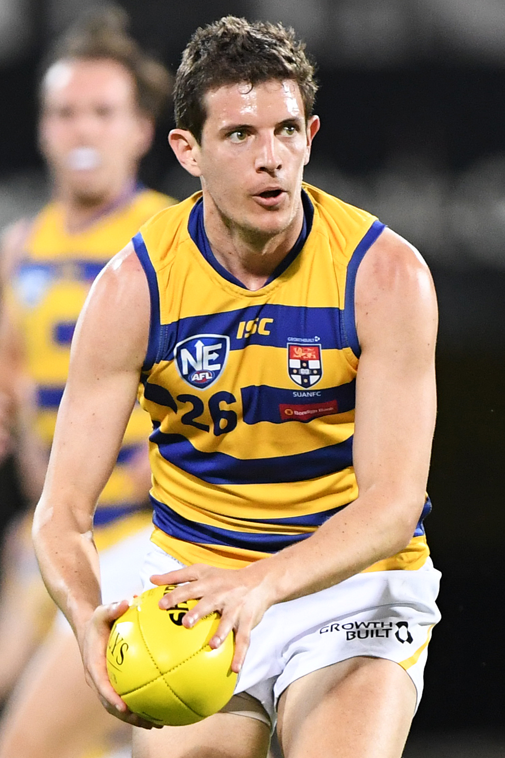 Will Sierakowski of Sydney University during the 2019 NEAFL round 19 match between NT Thunder and Sydney University at TIO Stadium on Saturday, 10 August 2019 in Darwin, Northern Territory.